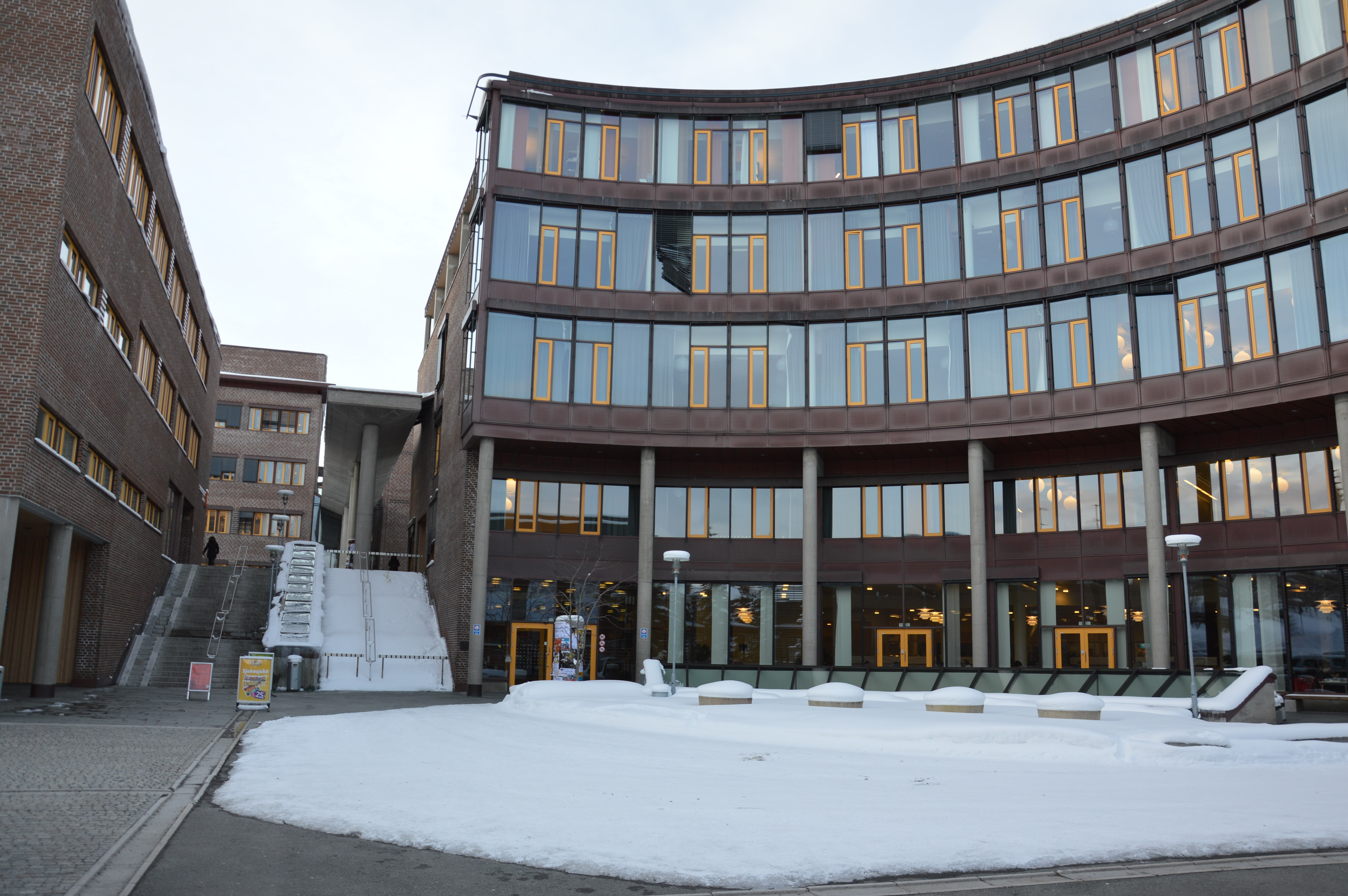 University of Tromsø, Non-experimental Science Building, House 1 (Education) on the right and House 2 (IT-department, Student Welfare Organisation, Centre for Sami Studies) on the left.